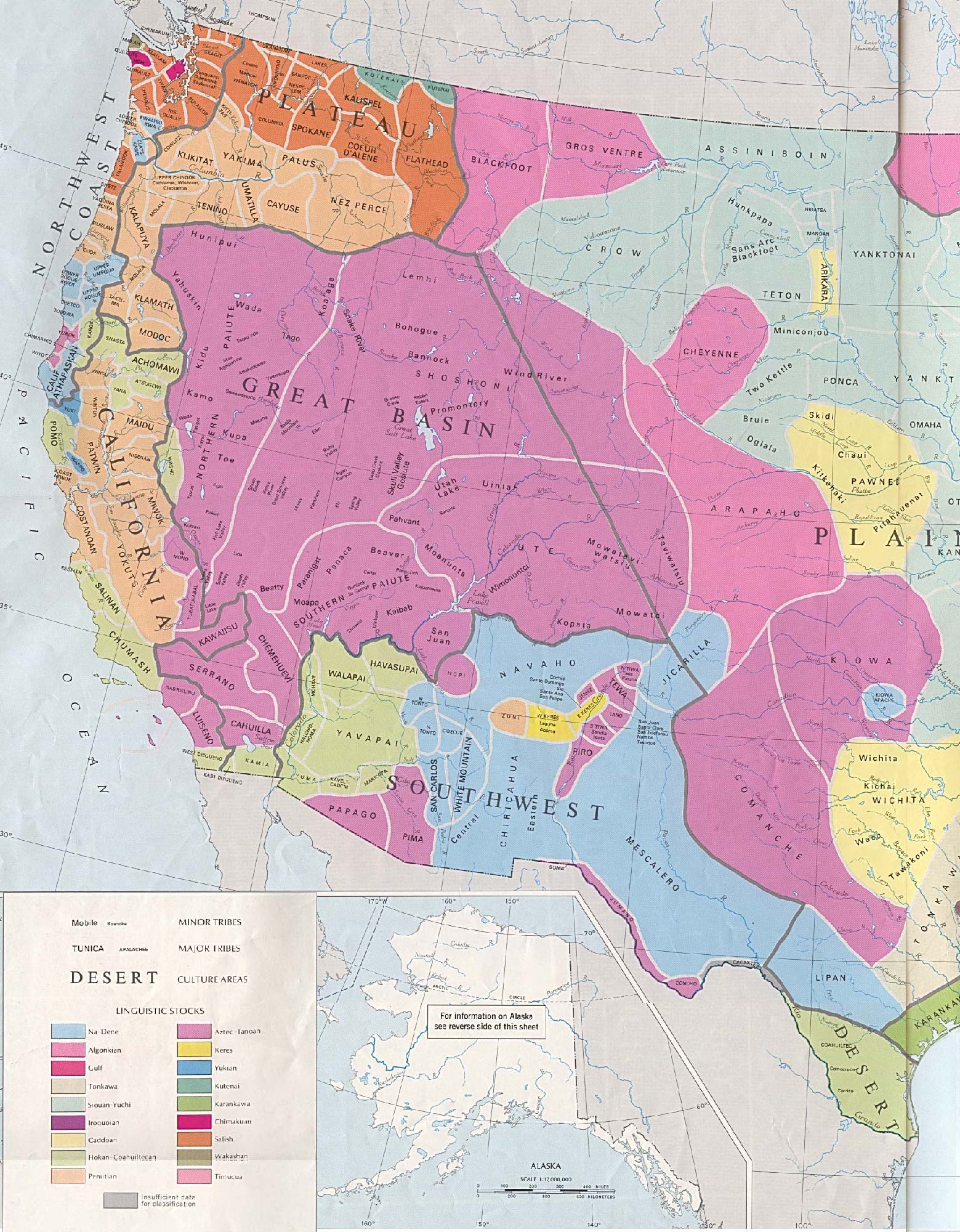 Early Native American tribal territories, in the present day Western United States.